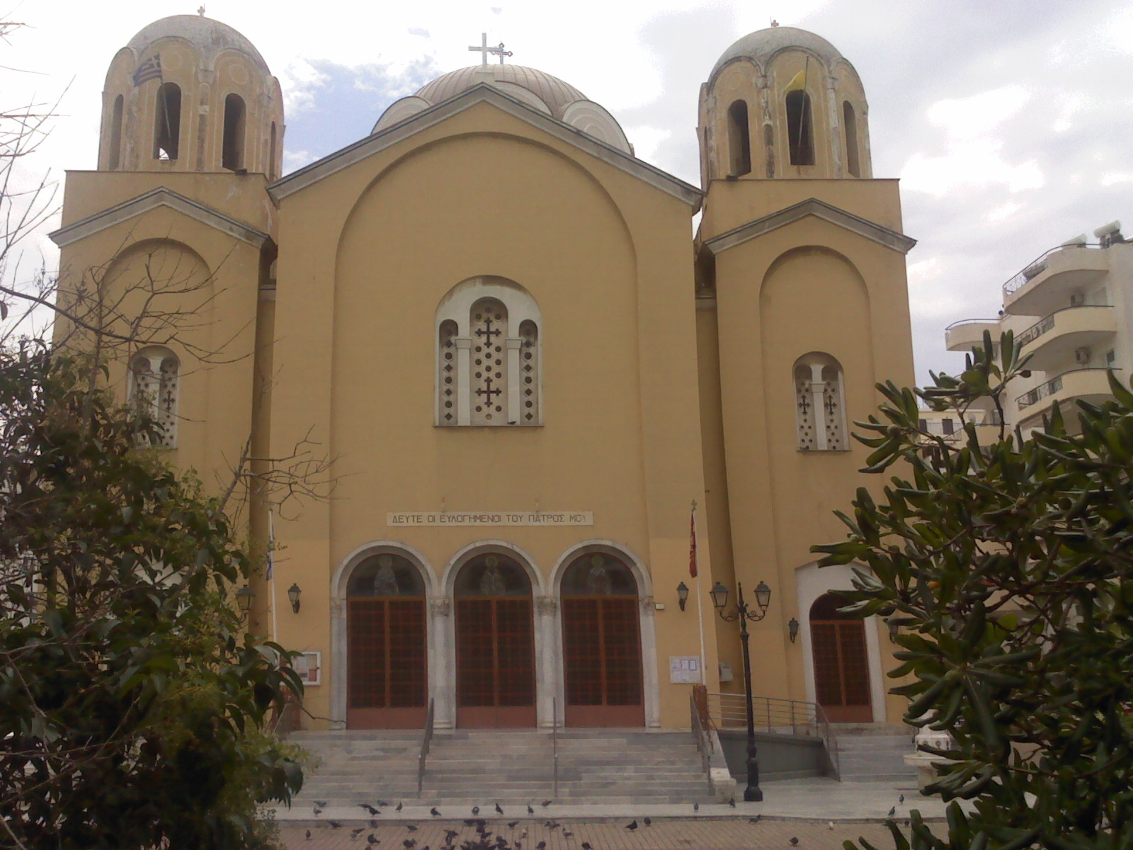 Agios Basileios Pireas